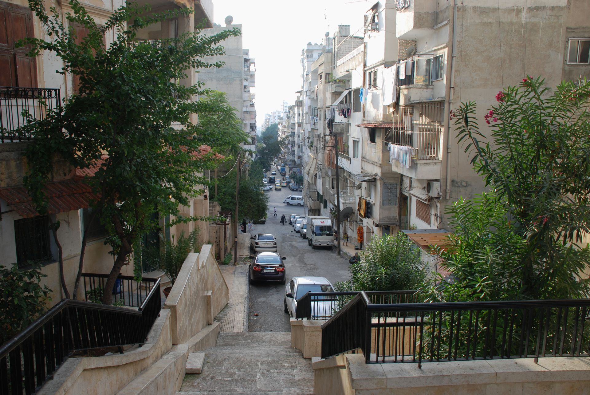 Latakia, Syria, centre